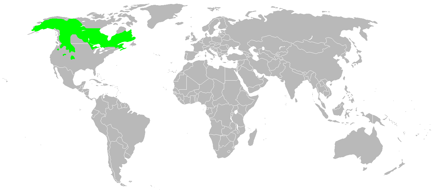 Approximate range of Lynx canadensis (Canadian lynx)